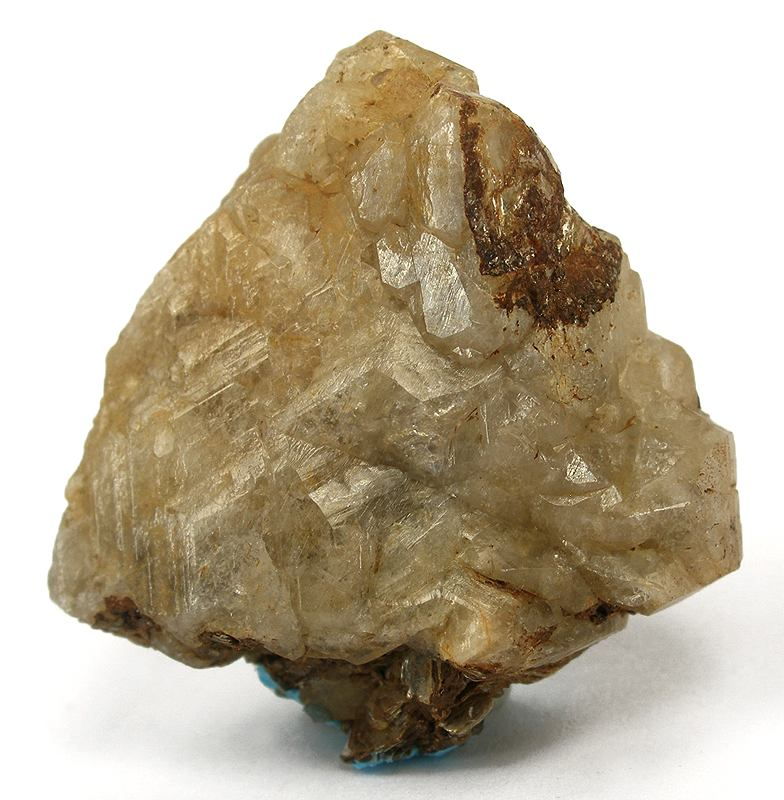 Herderite Locality: Fletcher Quarry, Groton, Grafton County, New Hampshire, USA (Locality at ) Size: miniature, 3.6 x 3.4 x 2.1 cm Hydroxyl-Herderite A remarkable, large crystal of hydroxylherderite from this classic locality. Hydroxylherderite crystals of such size, from any US locality (or any locality outside of Brazil for that matter) are extremely rare. This is a significant US species specimen, way beyond the norm of any reasonable expectation. Collected by Bob Whitmore in the early 1980s. Ex. Robert Whitmore Collection.